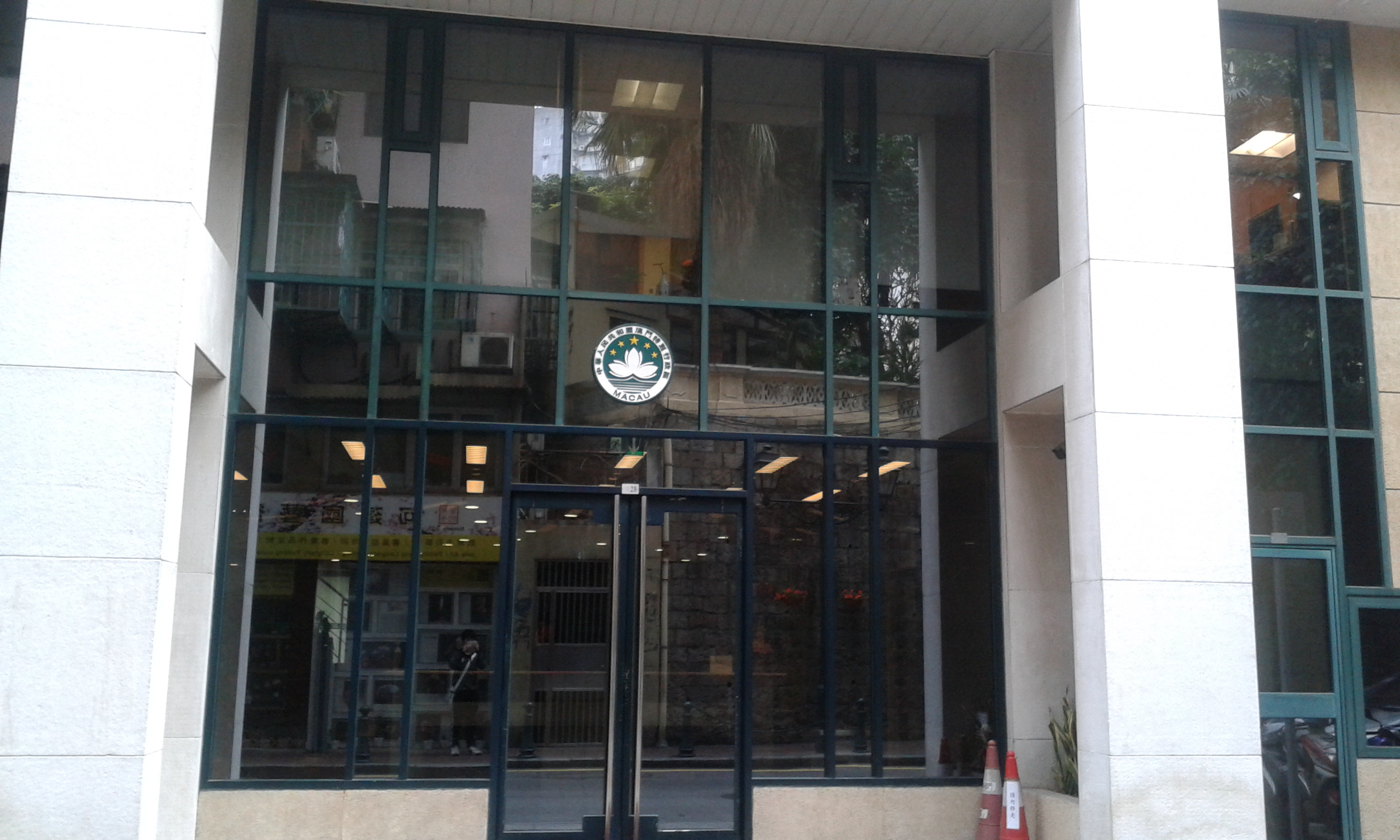 Macau Government Office